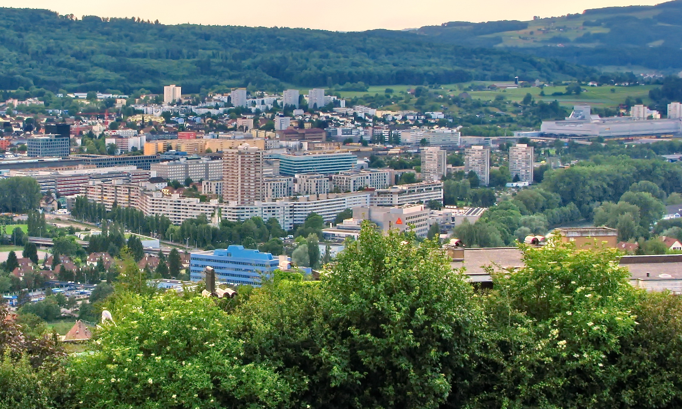 Zürich : Altstetten quarter and the Limmat Valley, as seen from Käferberg-Waidberg.